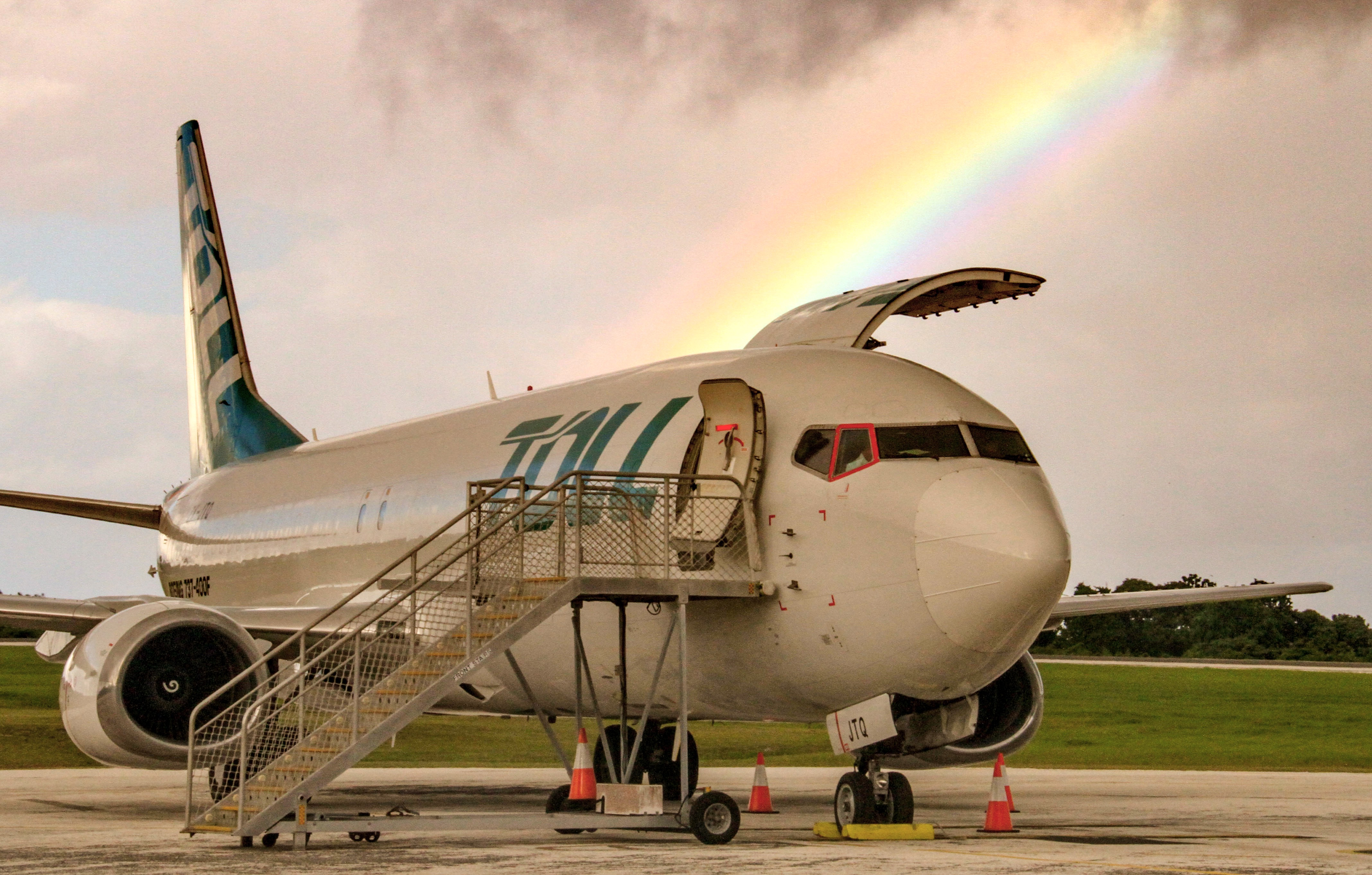 YPXM ZK-JTQ